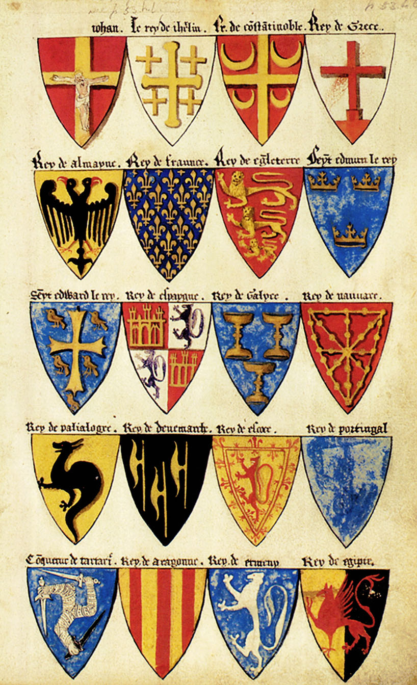 Page of Segar's Roll, English Roll of arms, copy of a late 13th century armorial. The first 20 (out of 212) coats of arms, as follows, rows from top left: Iohan (Prester John) Le Rey de Iherusalim (King of Jerusalem) E(mpereu)r de Constantinoble (Emperor of Constantinople) Rey de Grece (King of Greece) Rey de Almayne (King of Germany) Rey de Fraunce (King of France) Rey de Engleterre (King of England) Seynt Edmun le Rey (Saint Edmund the Martyr (d. 869), King of East Anglia) Seynt Edward le Rey (King Edward the Confessor) Rey de Espaygne (King of Spain [i.e. Castile and Leon]) Rey de Galyce (King of Galicia) Rey de Nauvare (King of Navarre) Rey de Palialogre (Palaiologos king, i.e. the Empire of Nicaea) Rey de Denemarche (King of Denmark) Rey de Escoce (King of Scotland) Rey de Portingal (King of Portugal) Conquerur de Tartarie (Conqueror of Tartary) Rey de Aragonne (King of Aragon) Rey de Ermeny (King of Armenia) Rey de Egipte (King of Egypt)